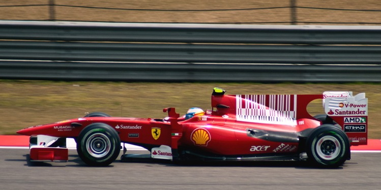 Qualification races on saturday.